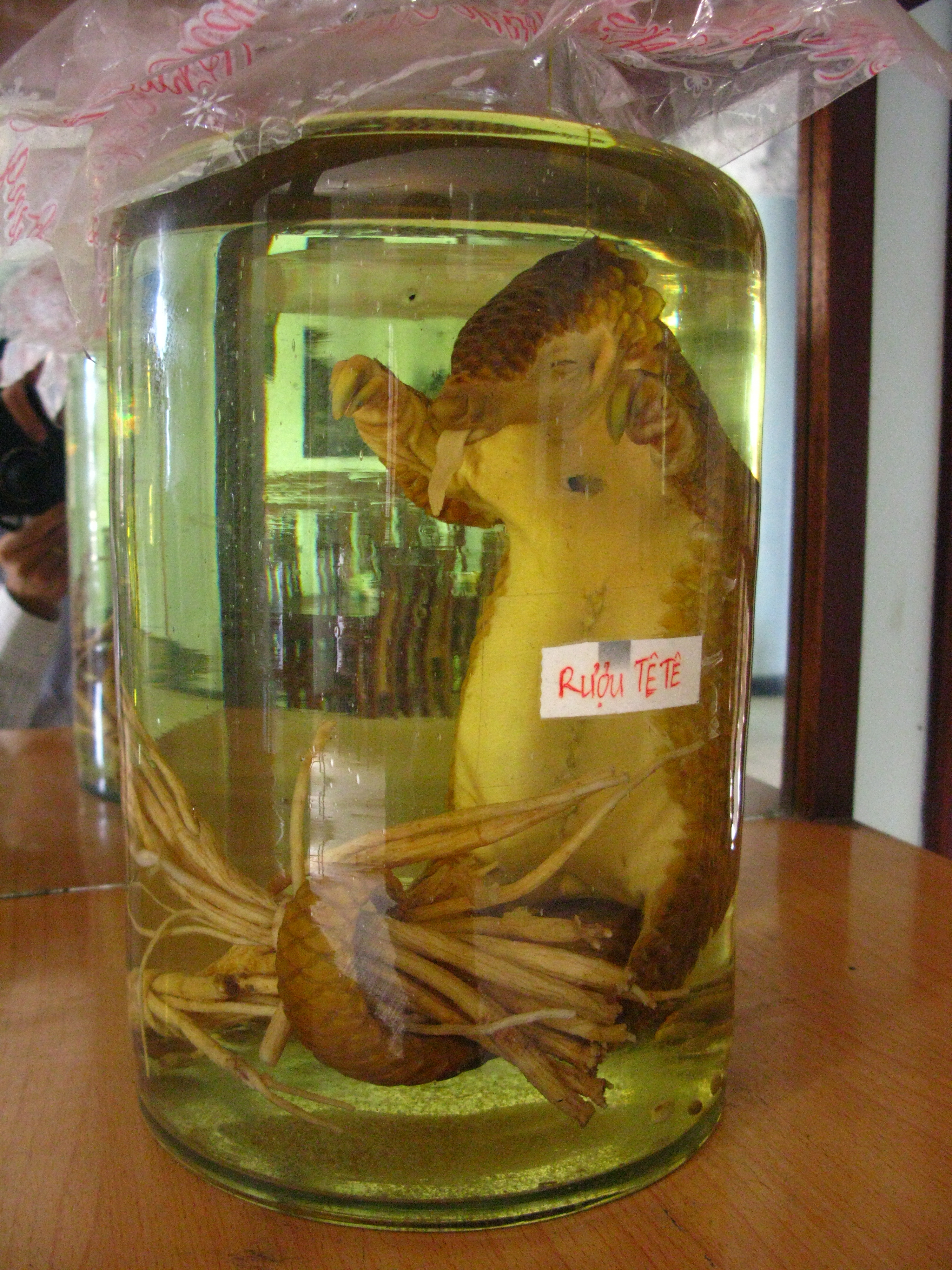 A pangolin in liquor. Vietnam